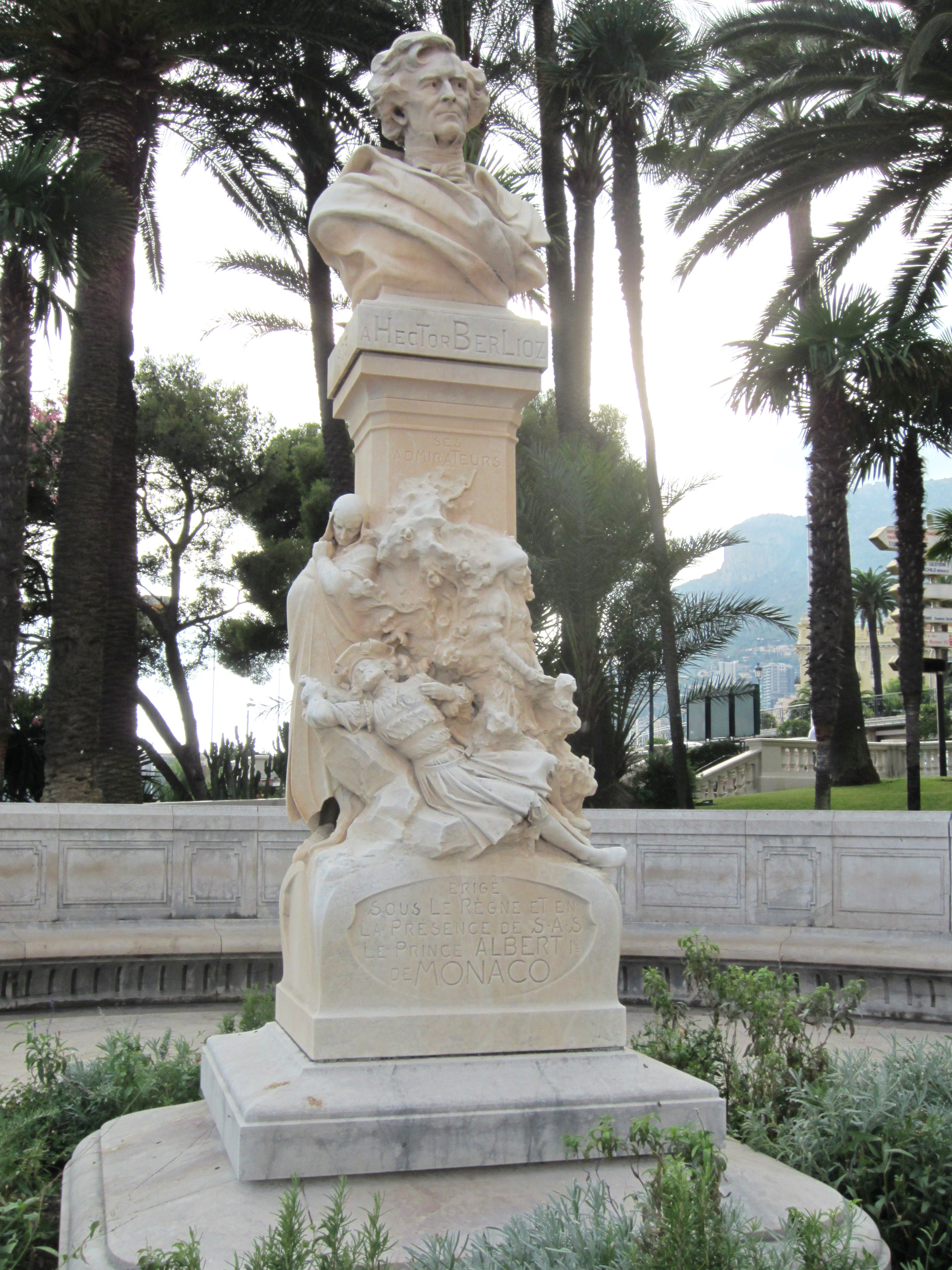 Description statue Berlioz Monaco Date24 December 2011Sourcemon appareil photoAuthorAimelaimePermission (Reusing this file) statue Berlioz Monaco